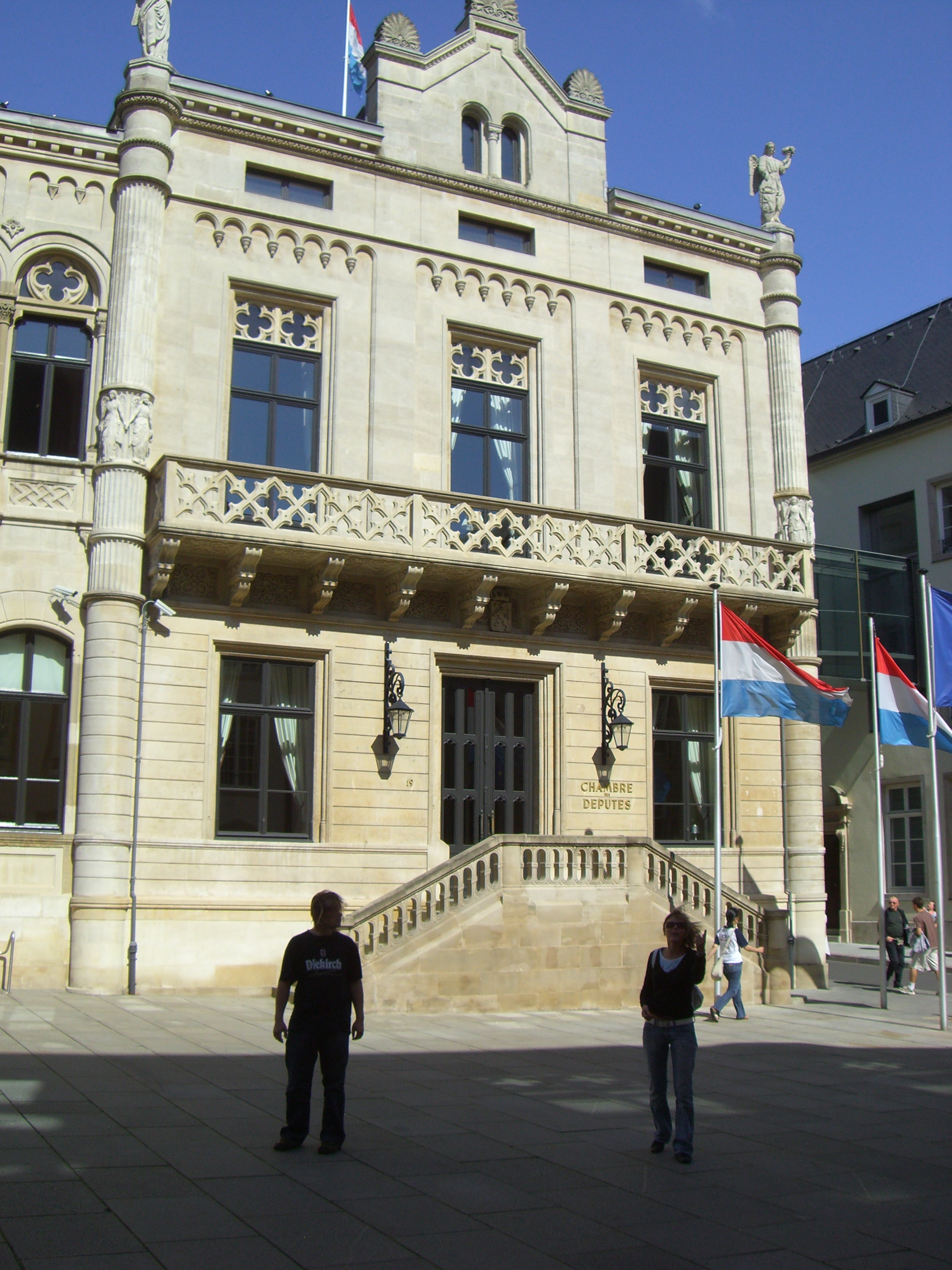 The luxembourgish parlament in Luxembourg city.